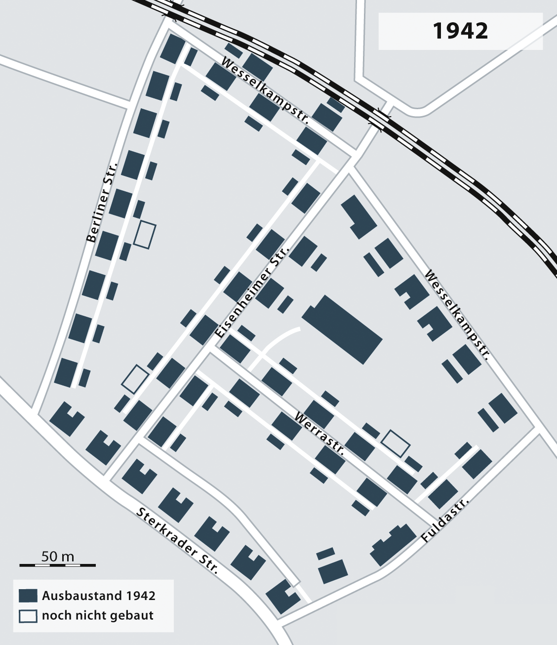 Siedlung Eisenheim (Oberhausen, Germany) in 1942